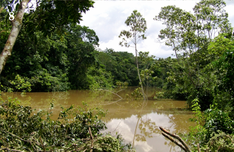 Photo of habitat where Drymaeus strigatus was found, near Río Arabela.